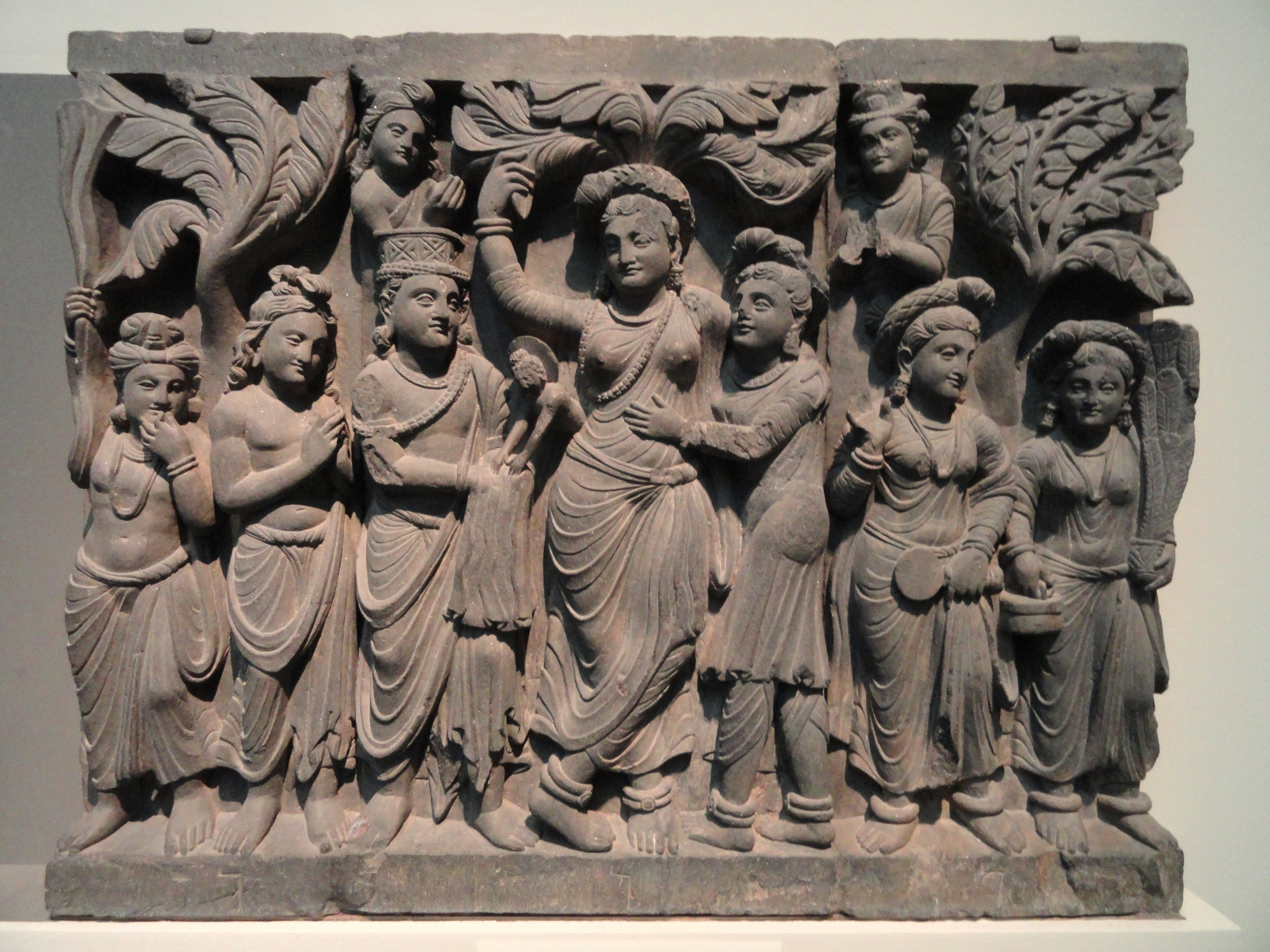 Exhibit in the Freer Gallery of Art, Washington, DC, USA. This artwork is old enough so that it is in the public domain.